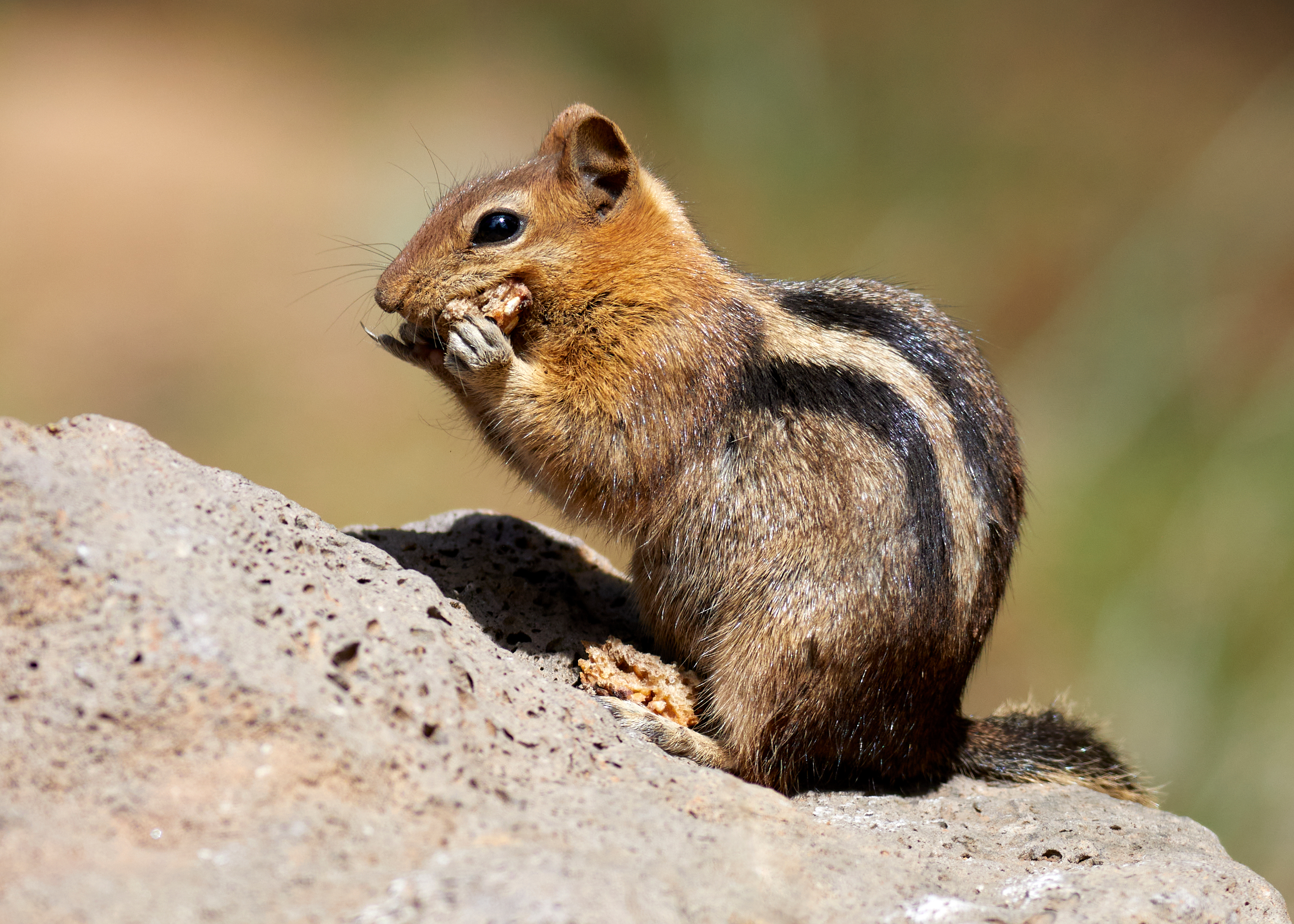 Golden-mantled ground squirrel (Callospermophilus lateralis) sitting on a rock eating food near Lake Almanor West on the west shore of Lake Almanor, Plumas County, California, on May 3, 2020.